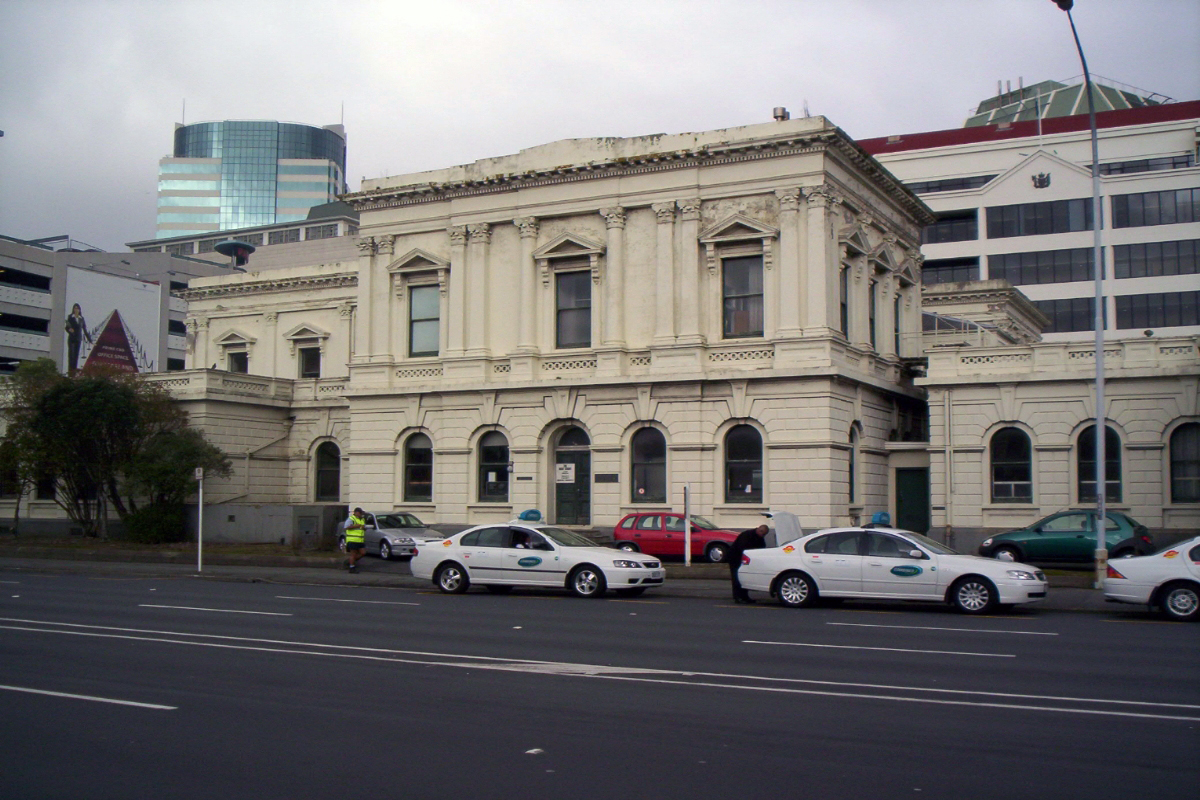 Picture taken by myself, Lewis Holden, of the proposed new Supreme Court - the Old High Court on Whitmore Street in Wellington. The Old Government Building is behind the photographer, and behind the Old High Court (slightly obscured by the picture) is the Wellington District Court (Note the Coat of Arms of New Zealand at the top of the building).